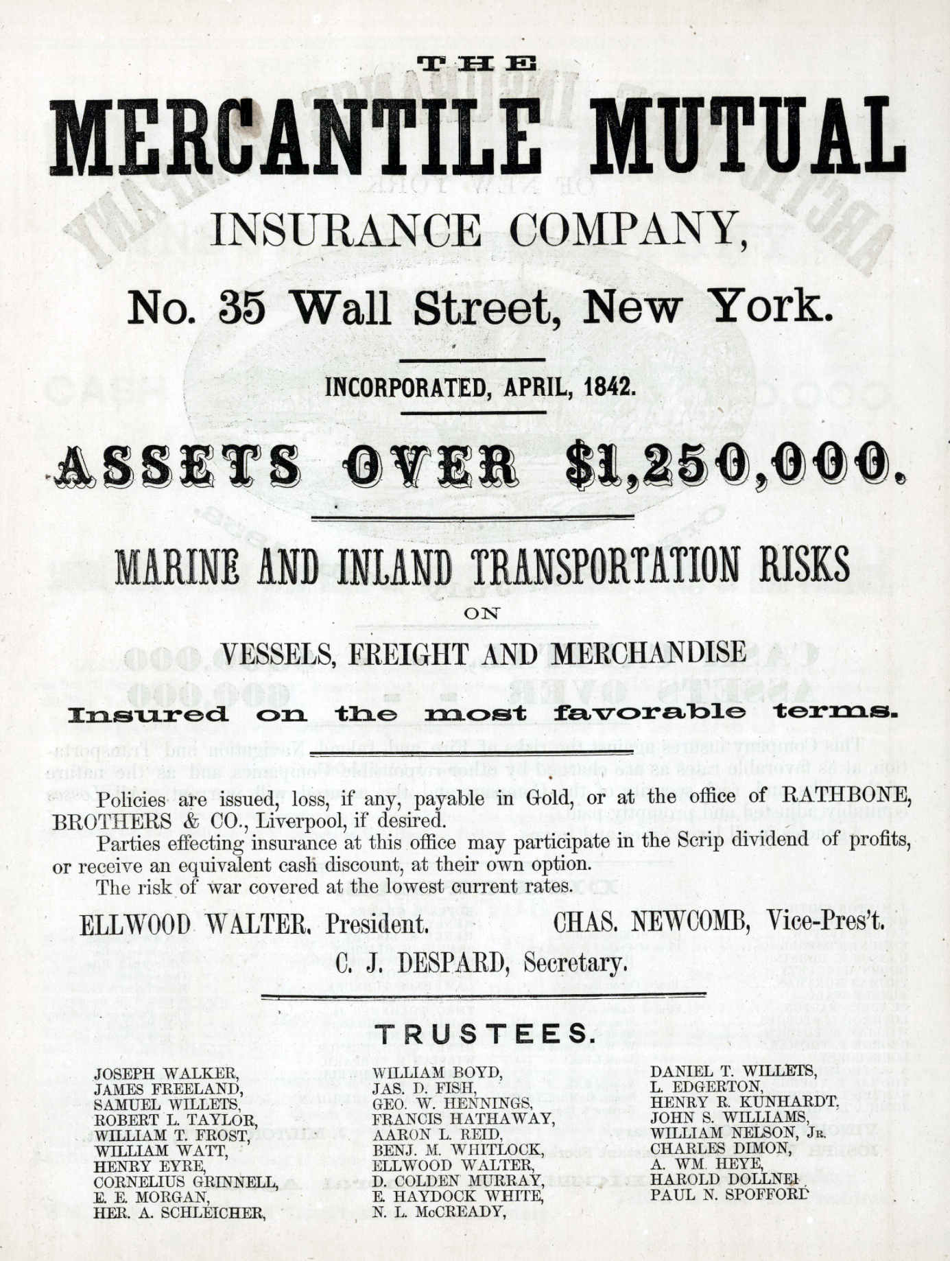 Schonberg's Standard Atlas Of The World. New York, Schonberg And Company. 1865.